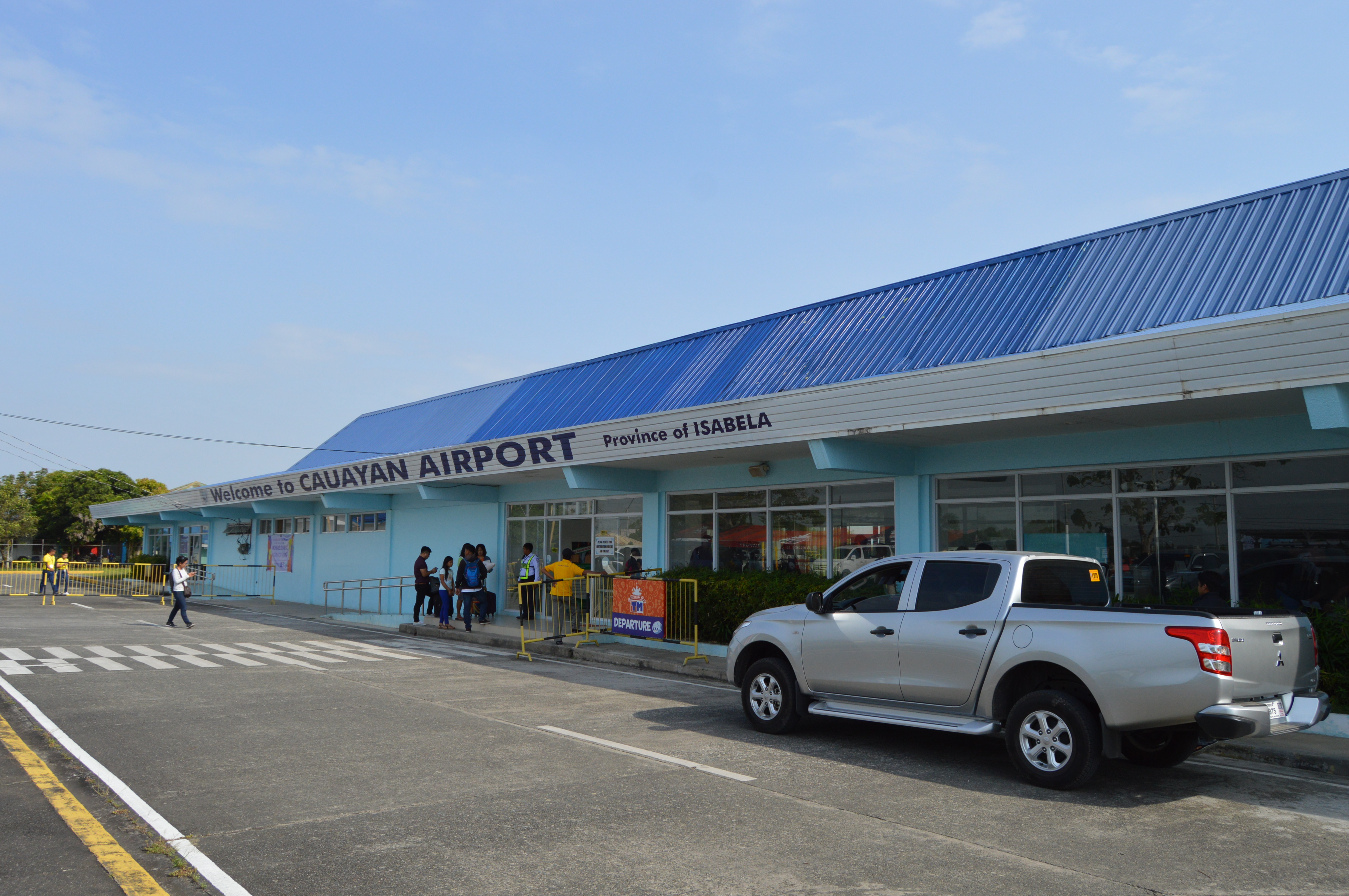 Photo shows the facade of Cauayan Airport in Cauayan City, Isabela.